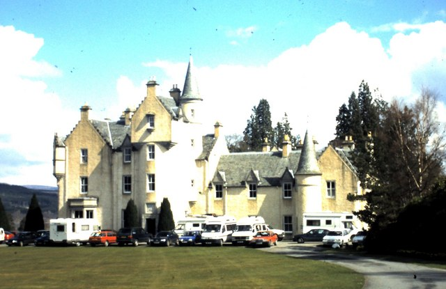 Dall House This mansion was built in 1855 for the chief of the Robertsons of Struan. It was soon sold and had several owners including the Forestry Commission. More recently it was Rannoch School but,sadly, that closed in 2002. An idyllic location with the Black Wood of Rannoch on its doorstep, its own short golf course and the loch on which to teach sailing. The school ran an auxiliary fire service and mountain rescue team for the area. Photo was taken during the 2000 Jan Kjellestrom orienteering competition which was centred here.